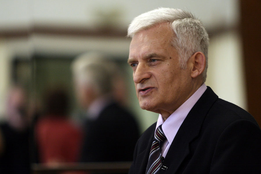 Member of the European Parliament Jerzy Buzek at the 10th General Assembly of the Congress of Poles in the Czech Republic